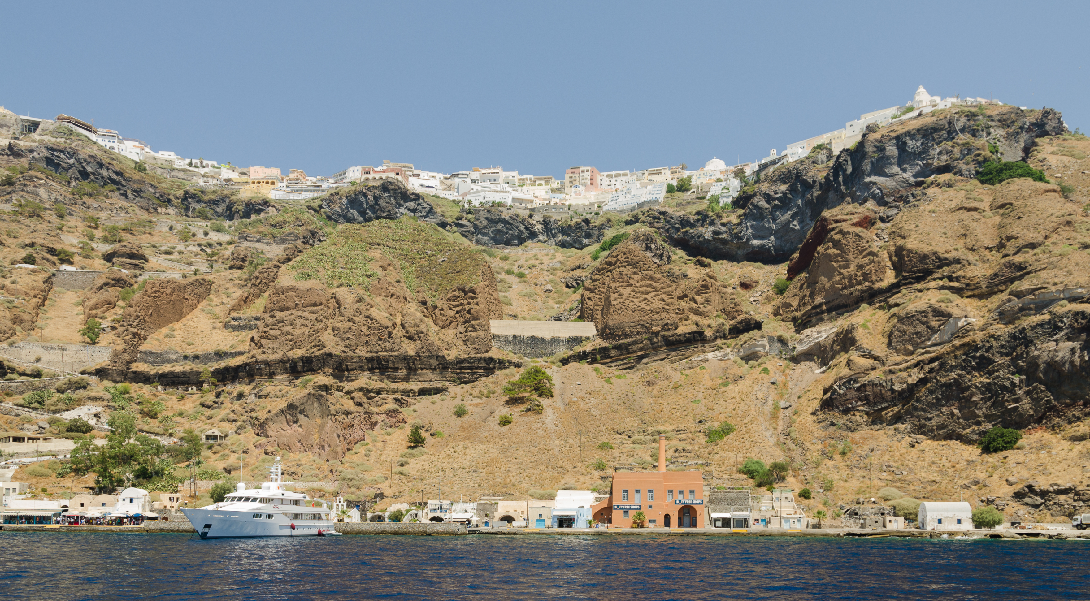 Mesa Gialos, old harbour of Fira, Santorini, Greece.